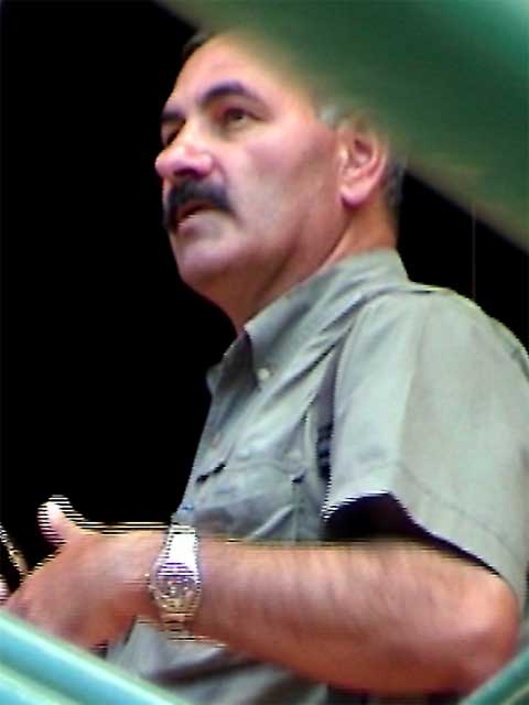 The palaeanthropologist Spanish José-María Bermúdez de Castro